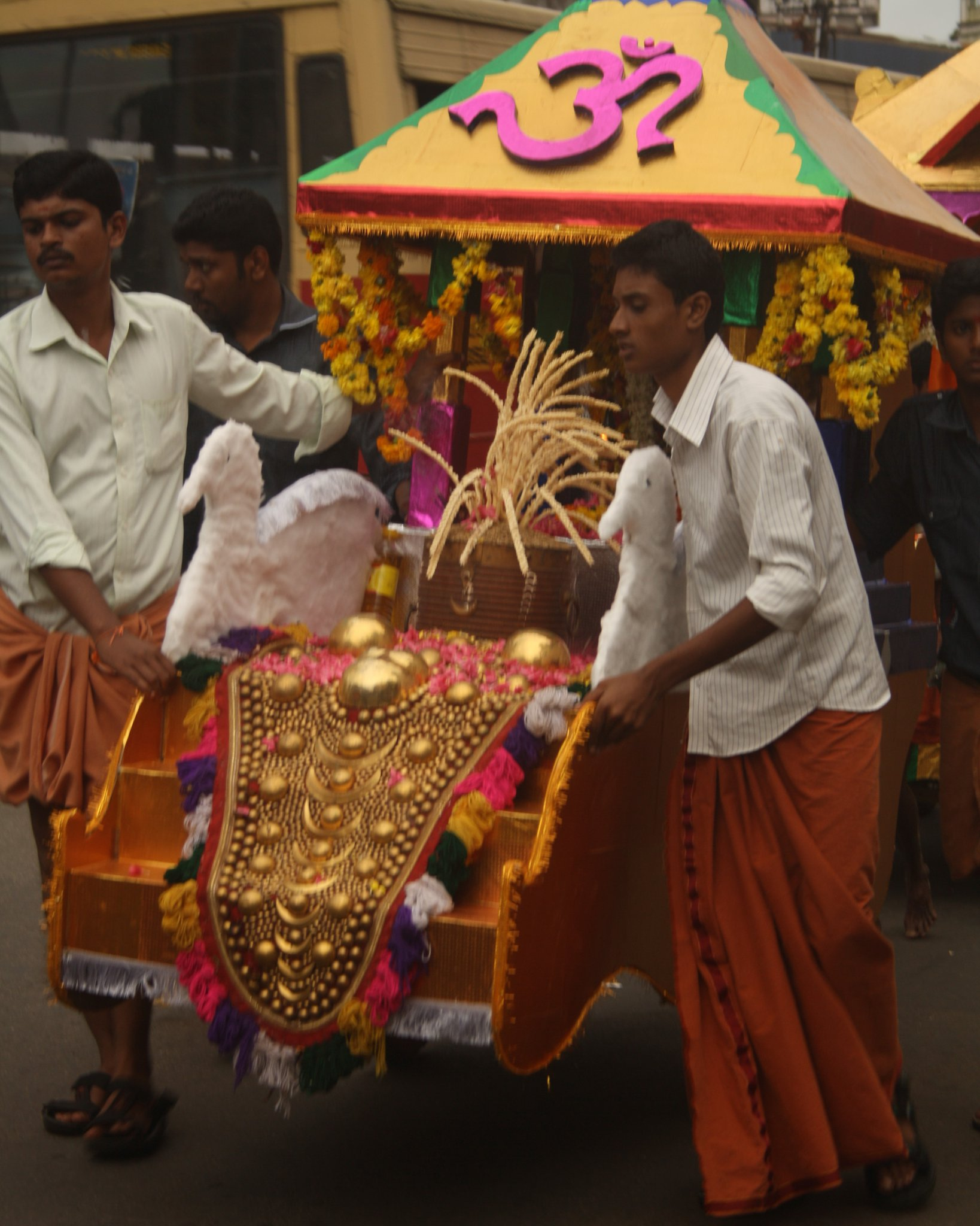 Sreekrishna Jayanthi @ Vazhappally